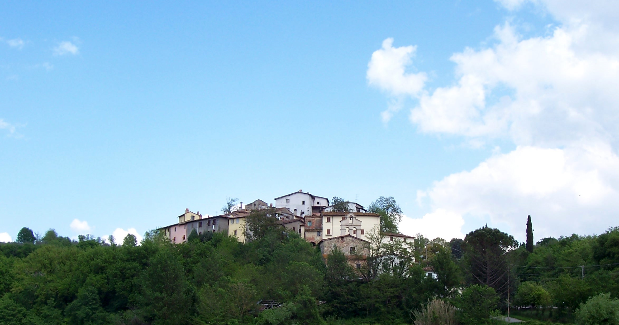 Panorama of Levane Alta, ancient village nearby Montevarchi